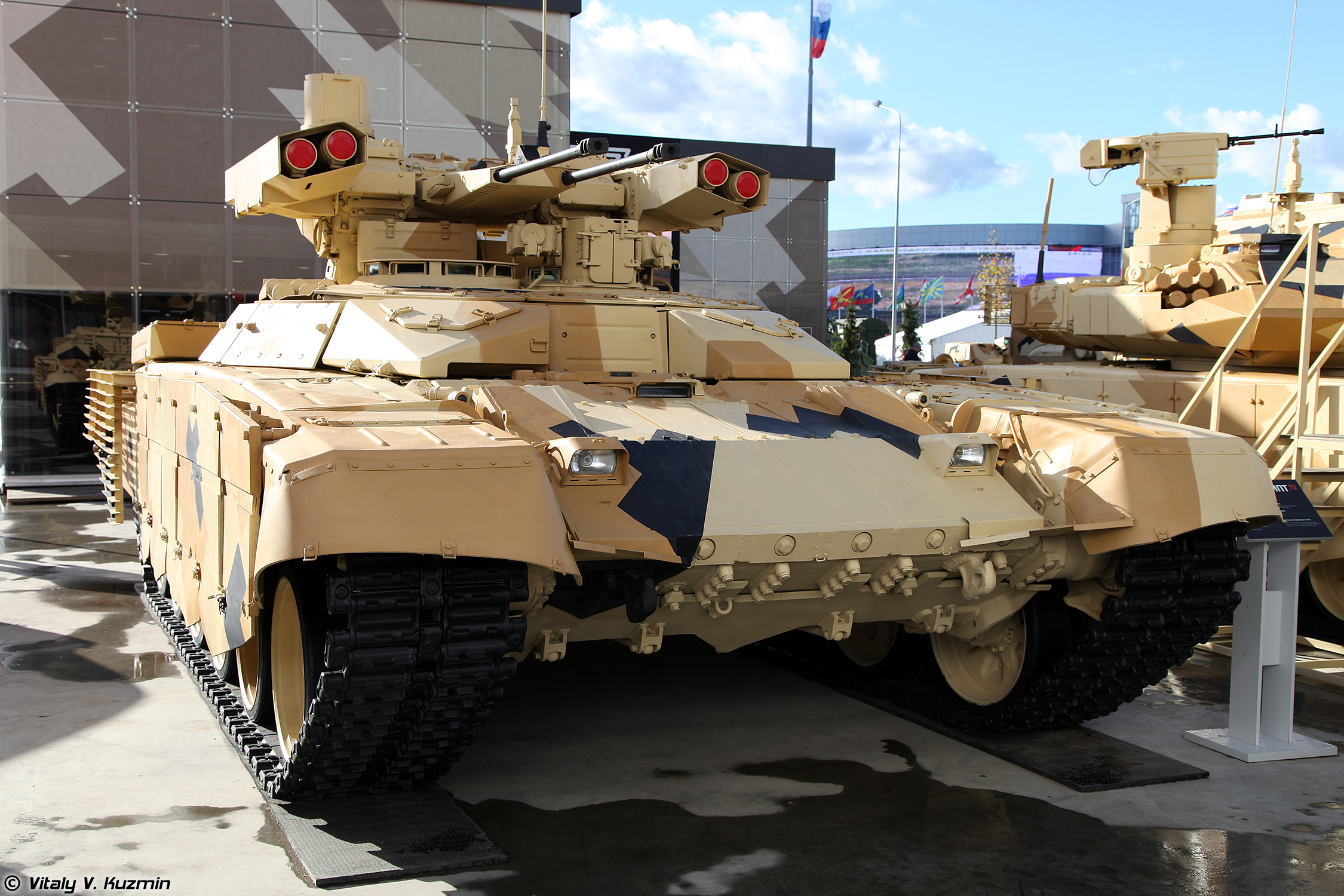 БМПТ-72 (BMPT-72 Terminator 2)